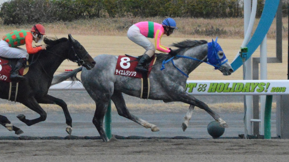 Japanese race horse T M Jinsoku at Chukyo racecourse.